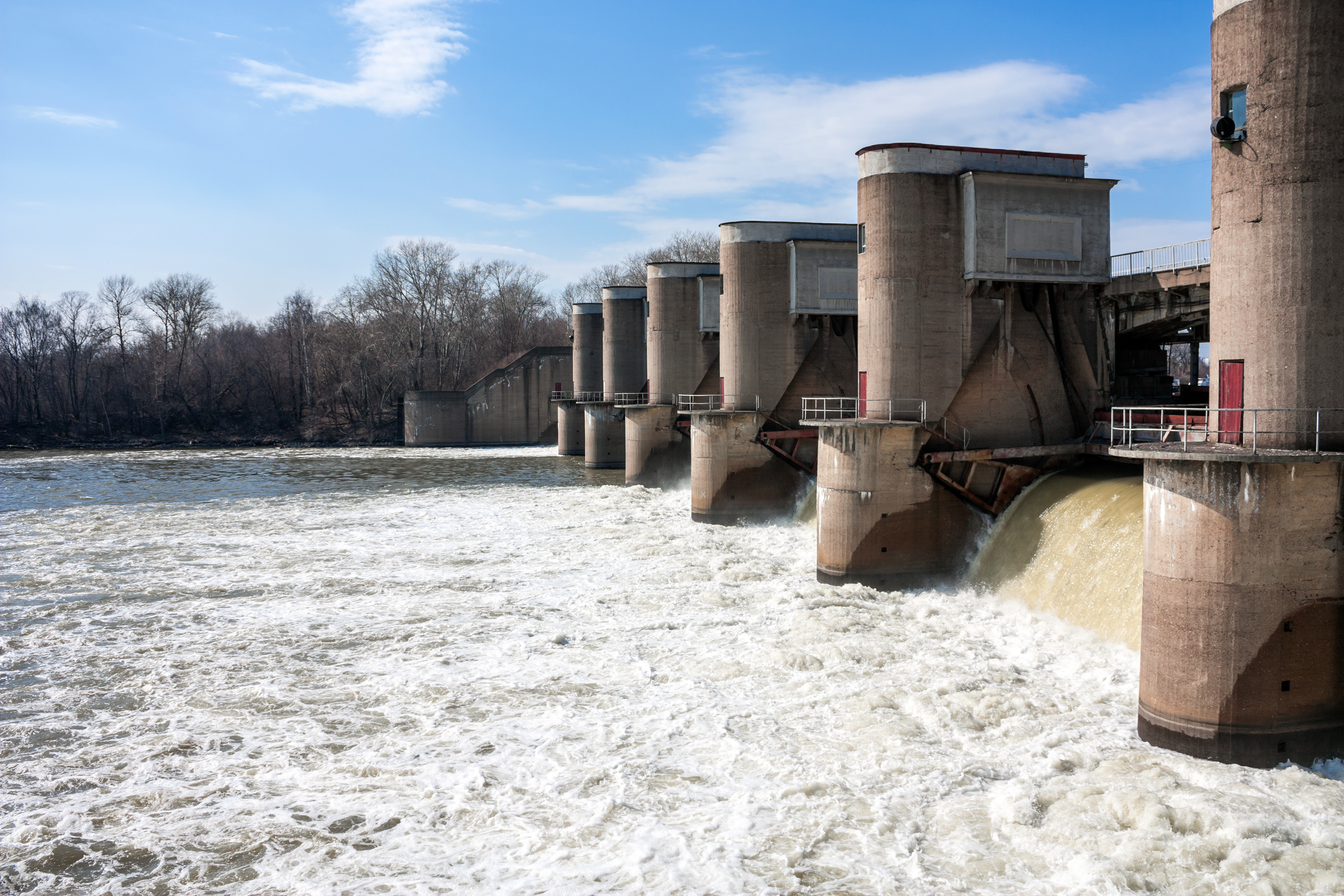 Clear water Perervinsky dam during spring flood, the area Pechatniki, South East District of Moscow